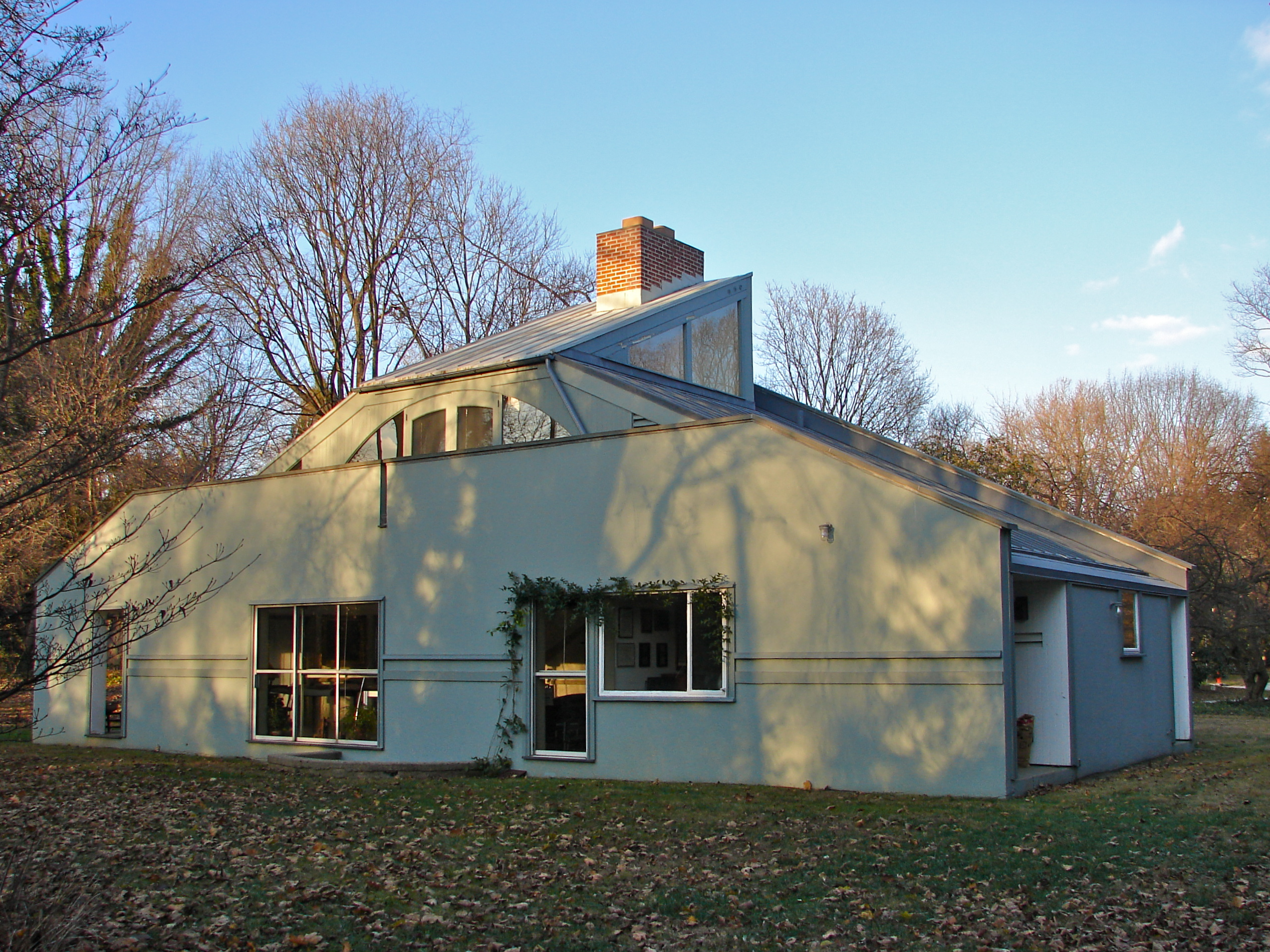 Vanna Venturi House from the west (rear). V V House is viewed as the first Post-modern building, being designed in the early 1960s by architect Robert Venturi for his mother. In the Chestnut Hill neighborhood of NW Philadelphia. The entire neighborhood is a National Register of Historic Places historic district.